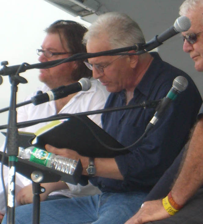 Writers Sinan Antoon, Michael Palmer and Russell Banks, speaking in tribute to the late writer Mahmoud Darwish, at the 2009 Brooklyn Book Festival.